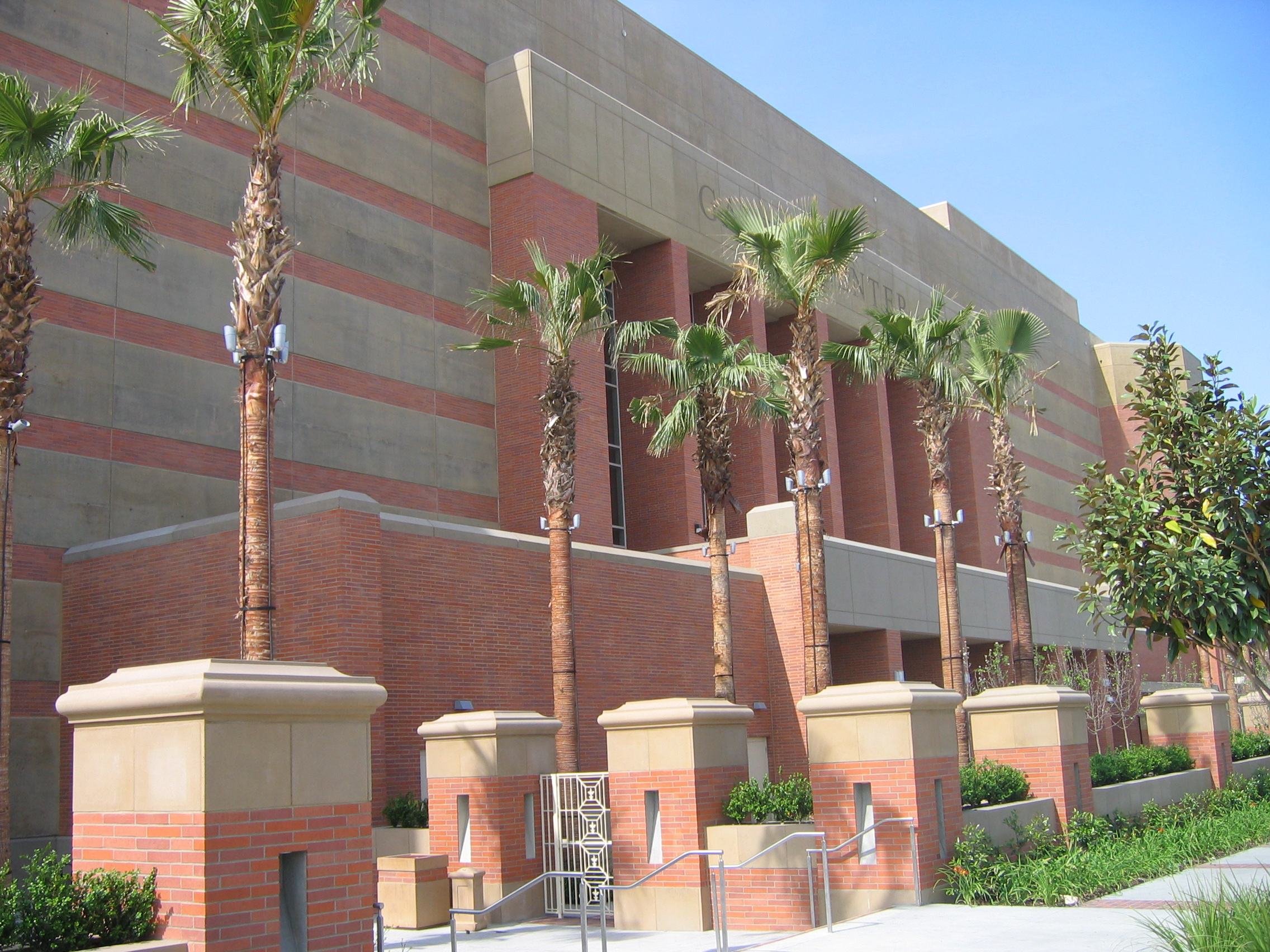 Football & Basketball Facilities USC Arena